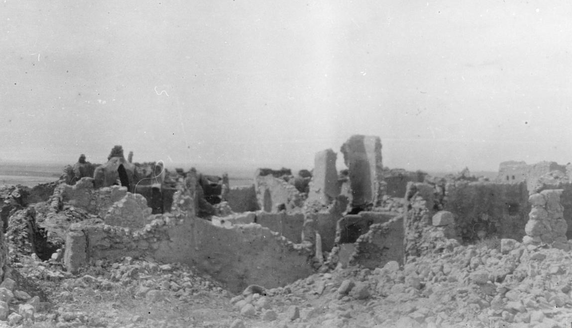 Photograph of Kefre Saba, north of Jerusalem, destroyed by gun fire from vicinity of Ras el Ain.